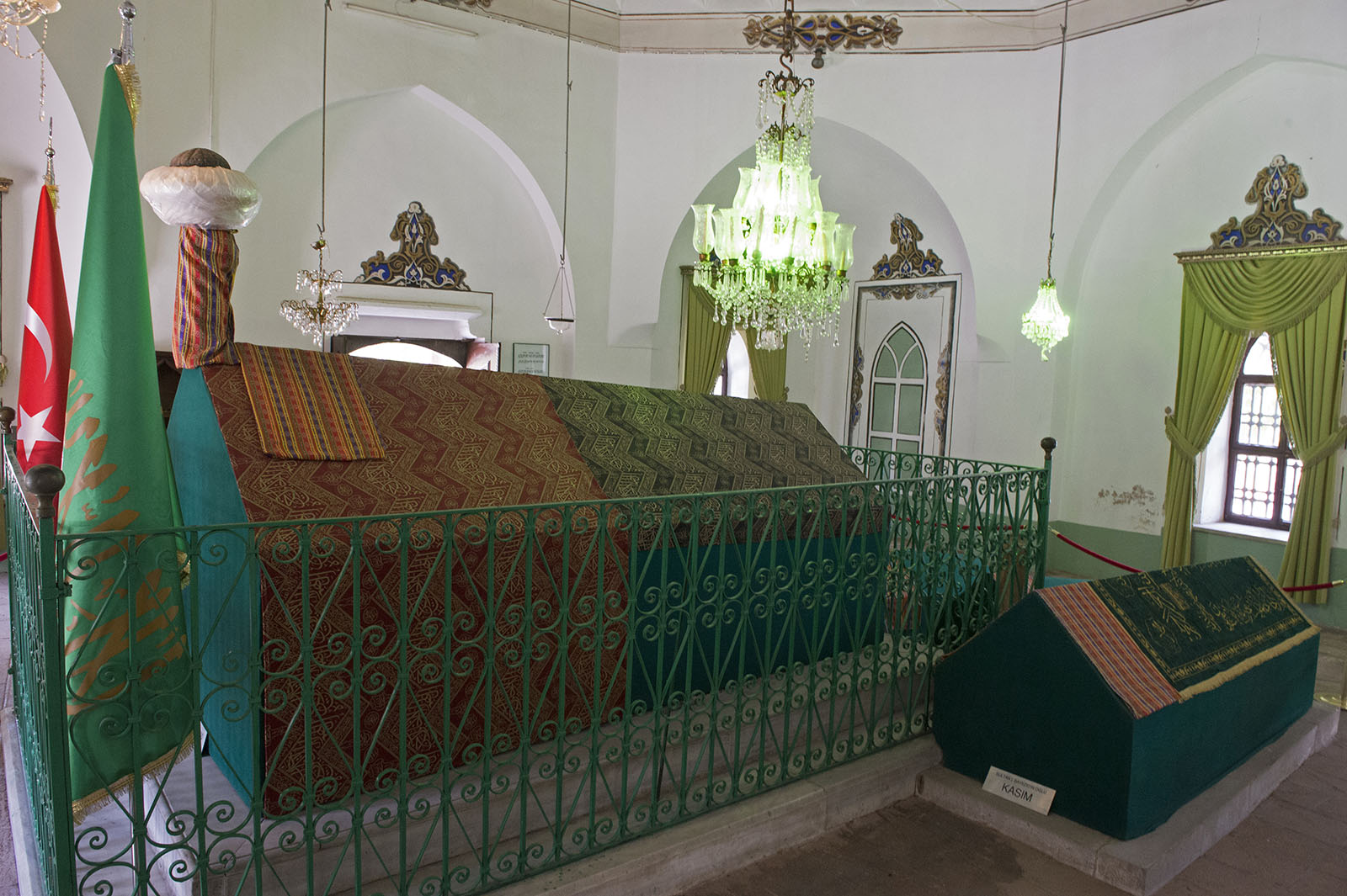 Inside the Bayezit I Türbesi (mausoleum). His son Isa is buried here too, and several other members of his family. The Türbe was restored several times, last in 1878. While the general architecture and the exterior have the right 15th-16th century Ottoman looks, the interior is fully late-Ottoman, with European Neo-Classical accents. Here Murat IV (1612-1640) came in solemn procession to insult his unlucky ancestor, who after a life of victories depending on the mobility of his forces (which granted him his nickname ‘Thunderbolt’) suffered a disastrous defeat against Timurlenk (Tamerlane), and died of chagrin in captivity.